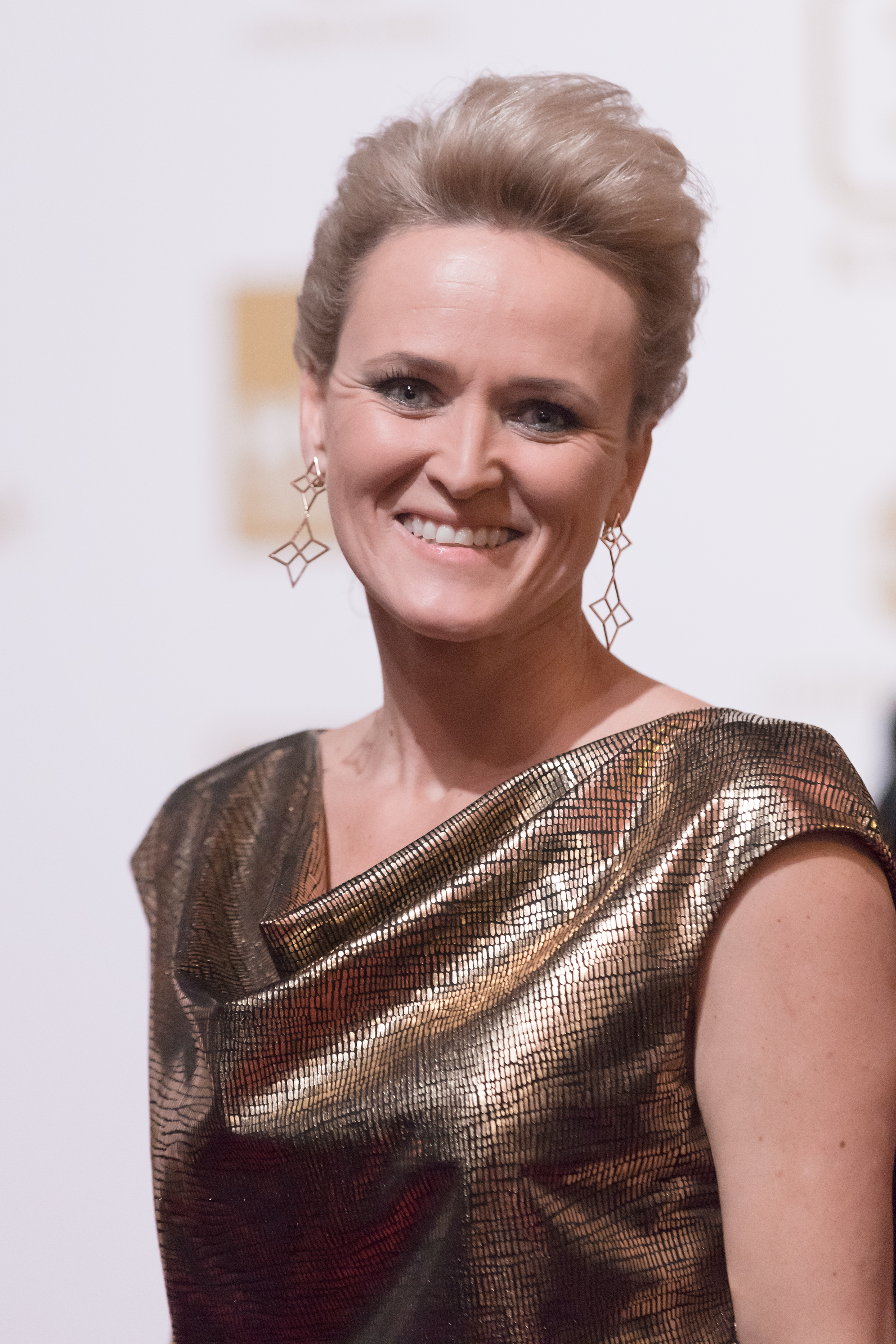 Alexandra Meissnitzer at the gala for the Austrian Sports Personalities of the Year 2017, at Marx Halle (Sankt Marx, Vienna, Austria).